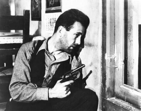 Humphrey Bogart in the American crime drama film The Petrified Forest (1936). See also film still. No copyright notice.